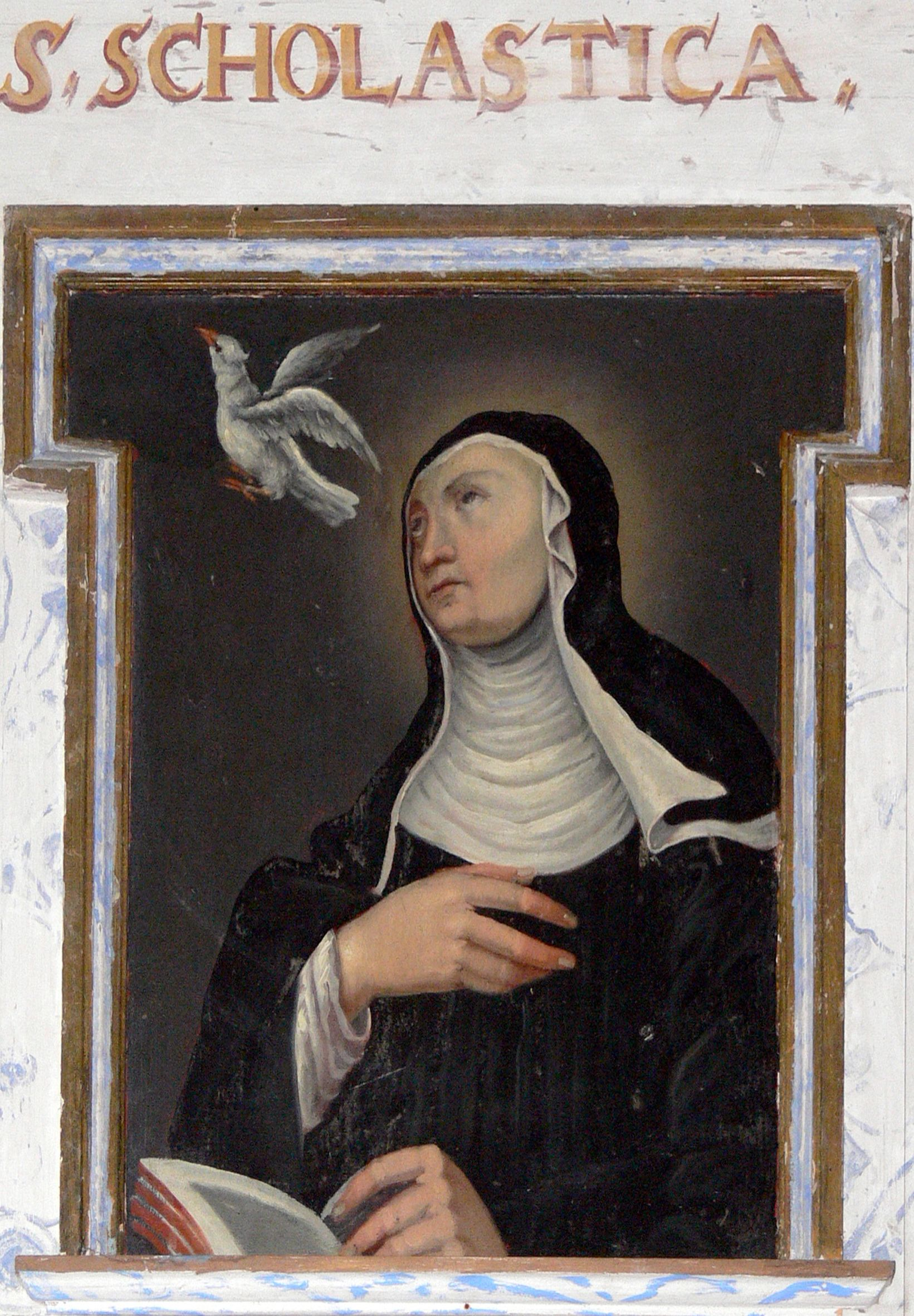 Saint Adolari church ( Tyrol ). Church gallery ( 1688 ) - Saint Scholastica.